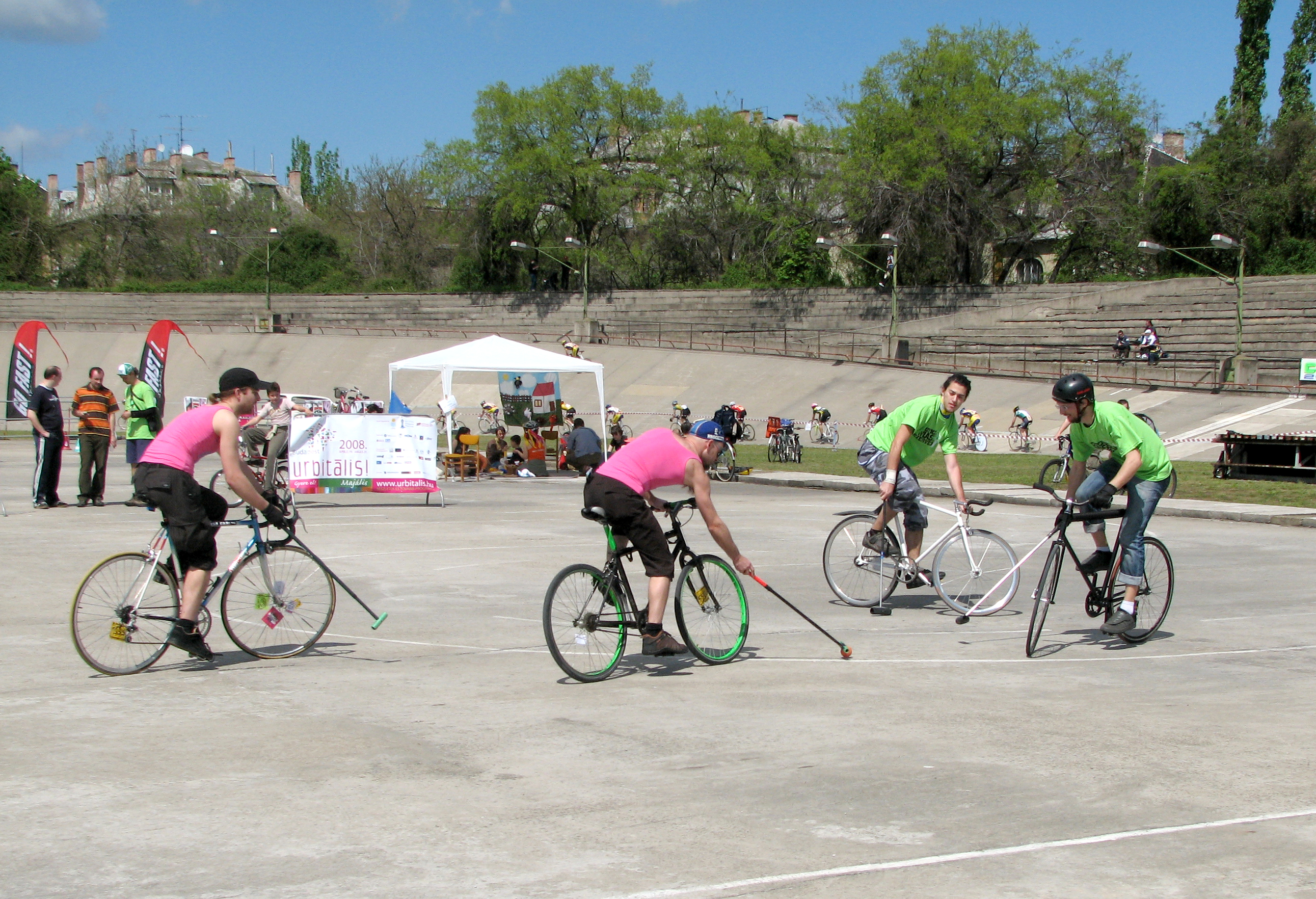 Friendly bike polo (or cycle polo) match between Austria (magenta) and Hungary (green) at the 2008 Earth Day in the Millenáris velodrome in Budapest.